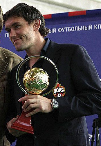 Yuri Zhirkov